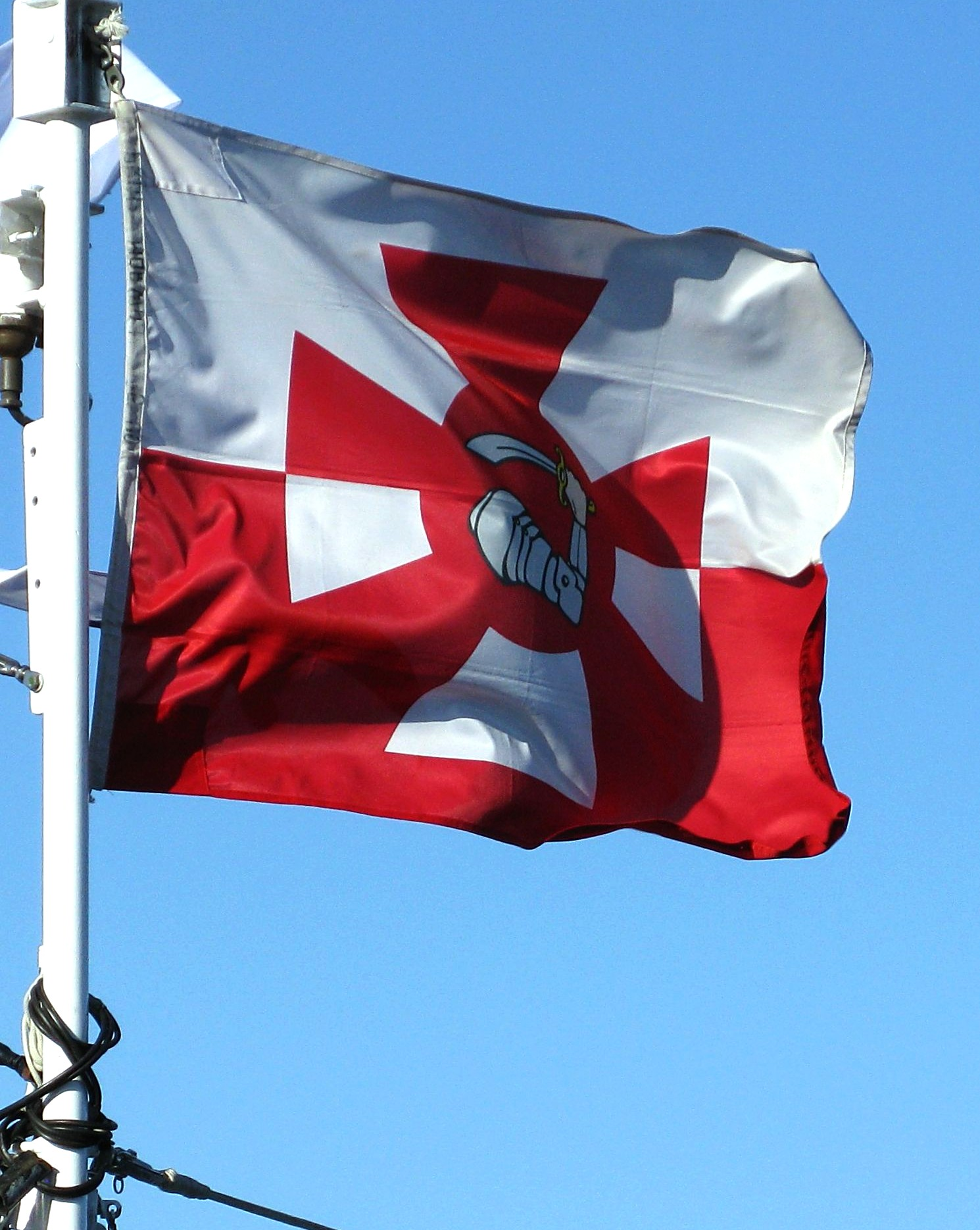 Naval jack of Polish Navy in Jastarnia